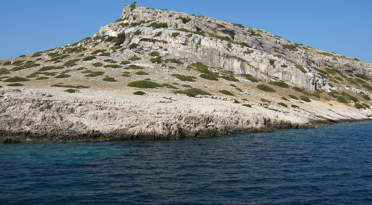 Abica island, Kornati.